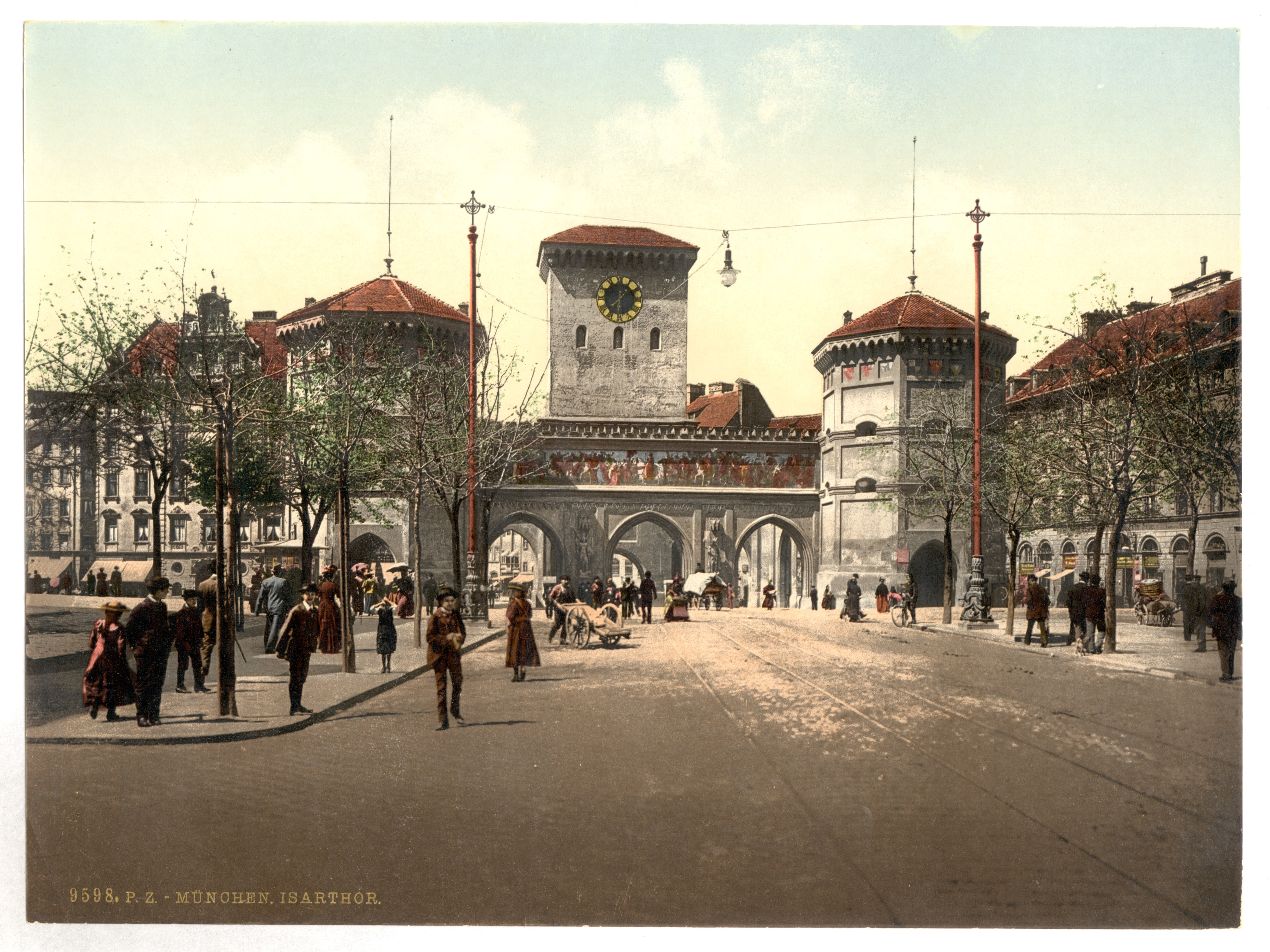 Isartor, Munich, Bavaria